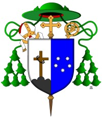 Coat of arms of Antonín Ludvik Frind, Bishop of Litoměřice